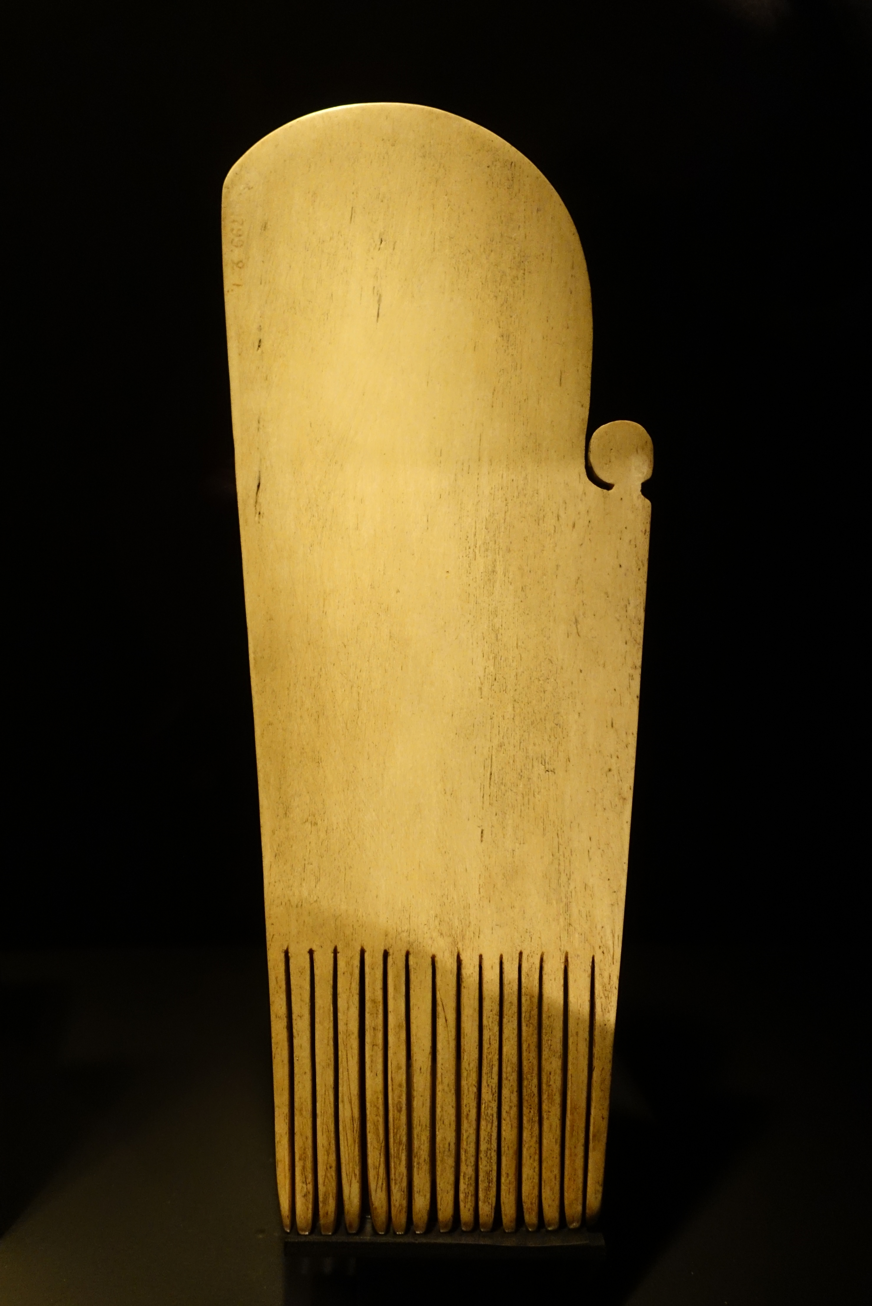 Comb, Maori people, whalebone, collected during James Cook's second circumnavigation 1772-75 by Anders Sparrman. Exhibit in the Etnografiska museet, Stockholm, Sweden. This work is old enough so that it is in the public domain.